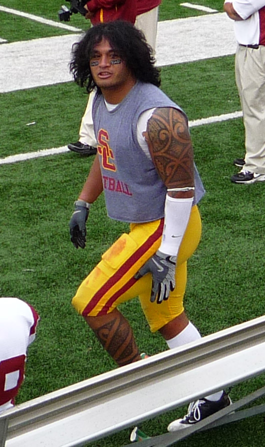 USC Trojans linebacker Rey Maualuga, on the sidelines during a game versus the Washington State Cougars in the 2008 season.